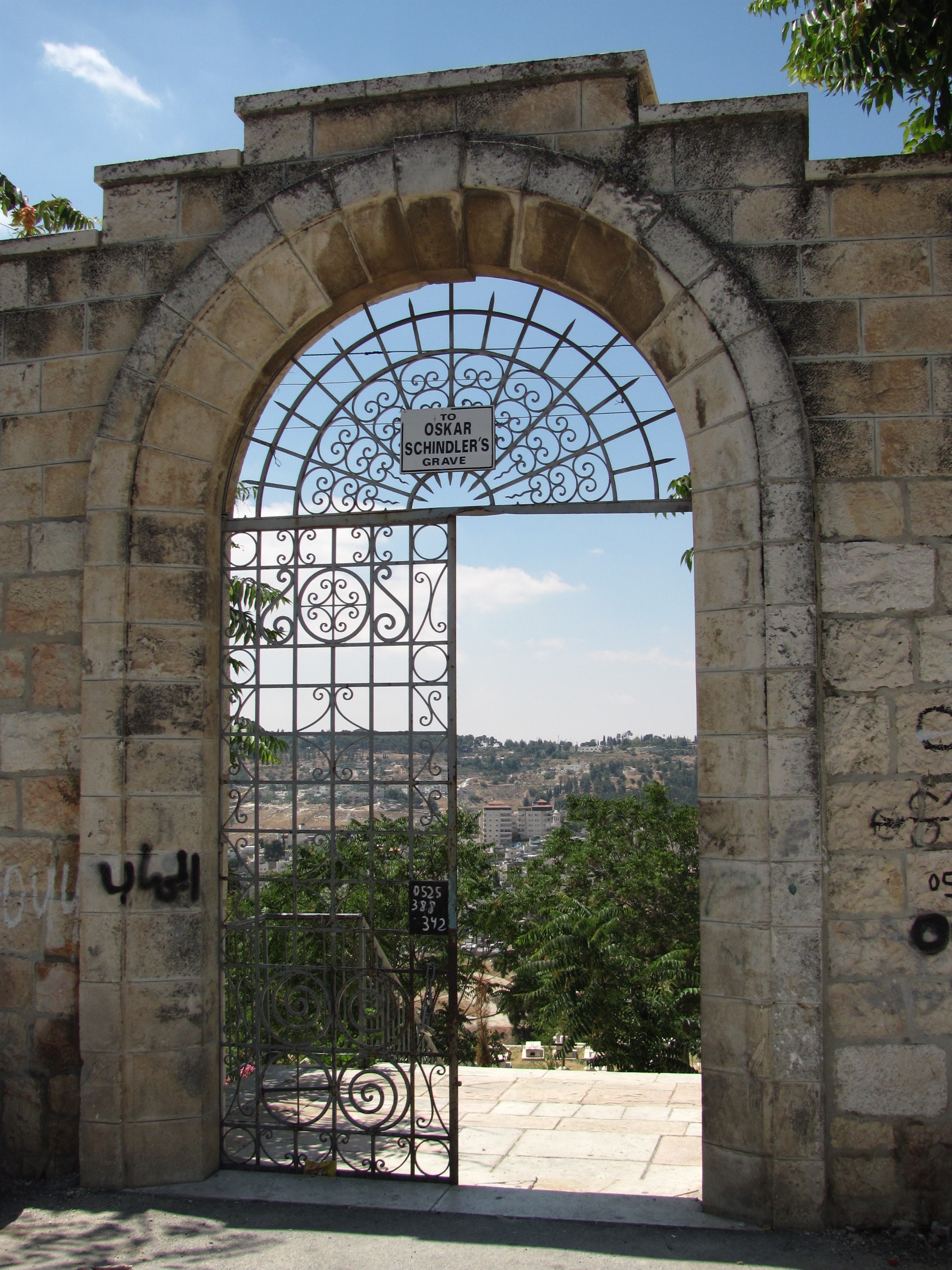 Sign posted at the entrance to the Mount Zion Franciscan cemetery: "To Oskar Schindler's Grave". In fact, Schindler's grave is located on the third level down the mountain from this sign.